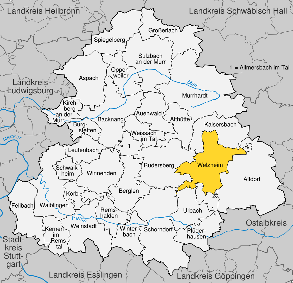 position of Welzheim within the Rems-Murr-Kreis, Baden-Württemberg, Germany